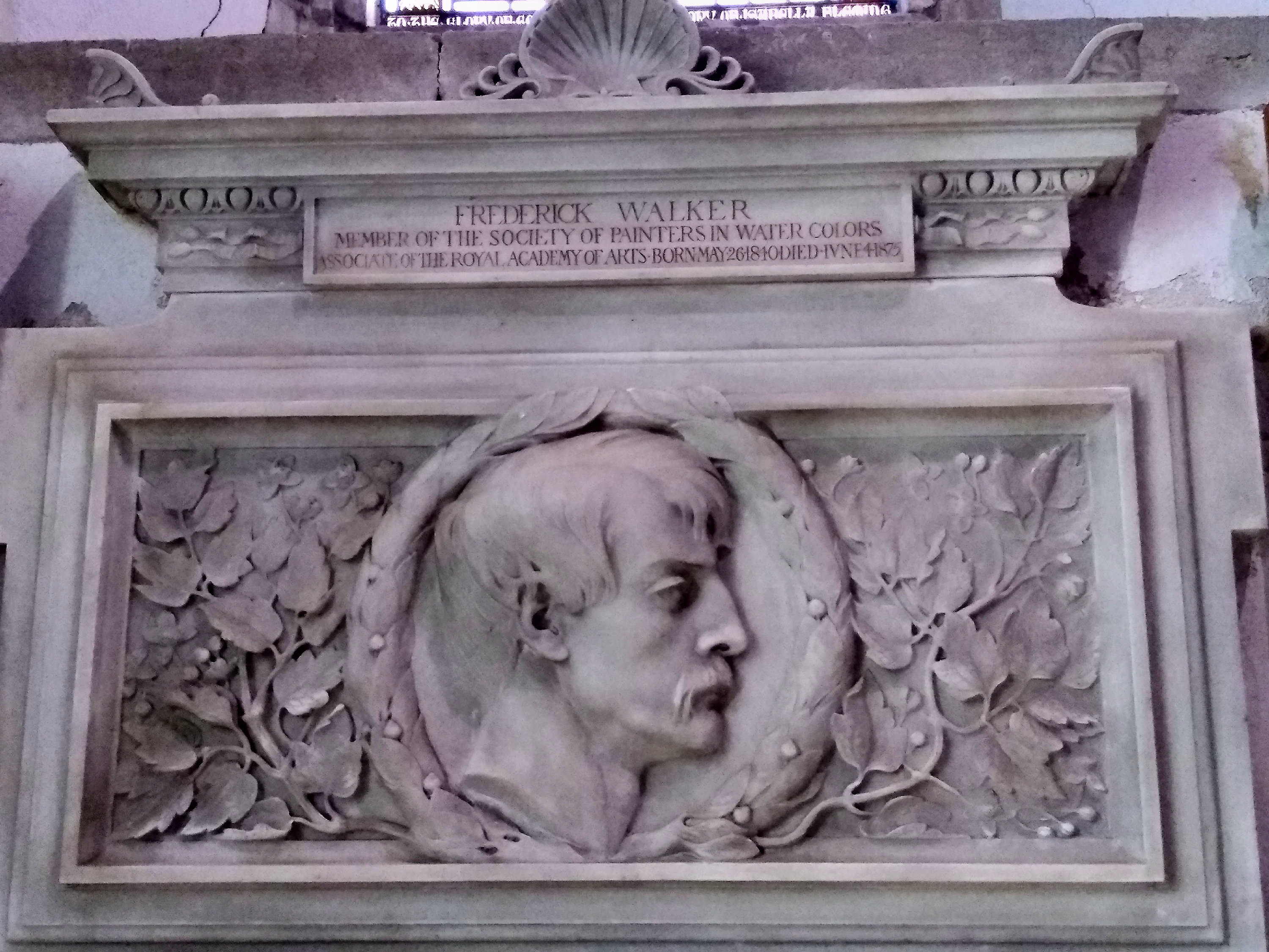 Holy Trinity Church, Cookham, Frederick Walker memorial